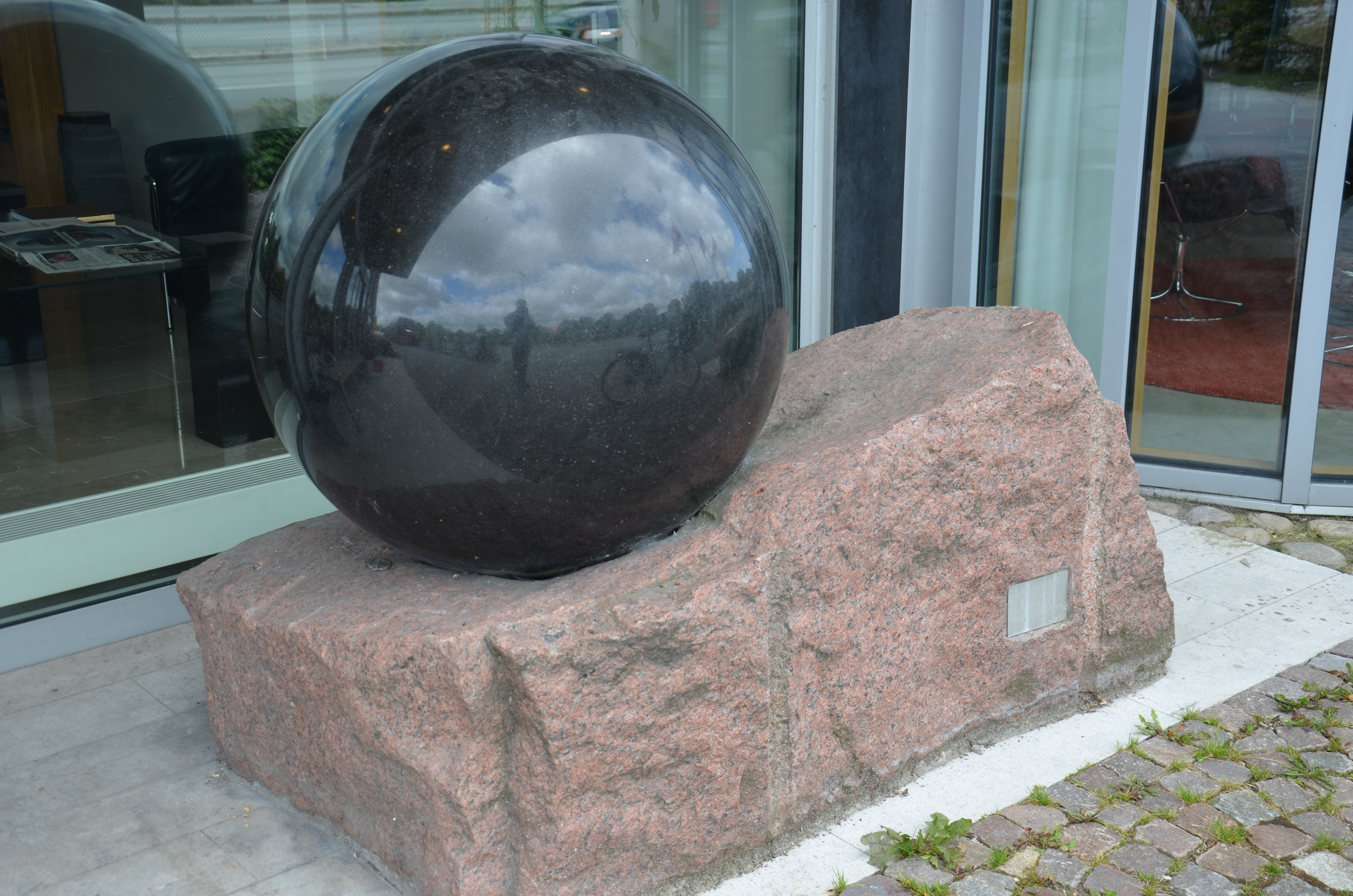 Christer Bordings Kosmos budbärare, 1999, diabas och röd granit, utanför Hotel Planetstaden, Dalbyvägen i Lund